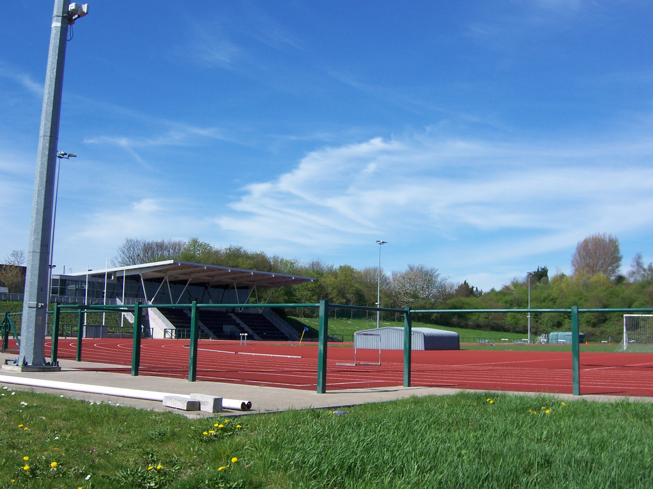 The Hillingdon Athletics Track in Uxbridge.